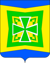 Coat of arms of Temizhbekskaya (Krasnodar Rayon, Russia)